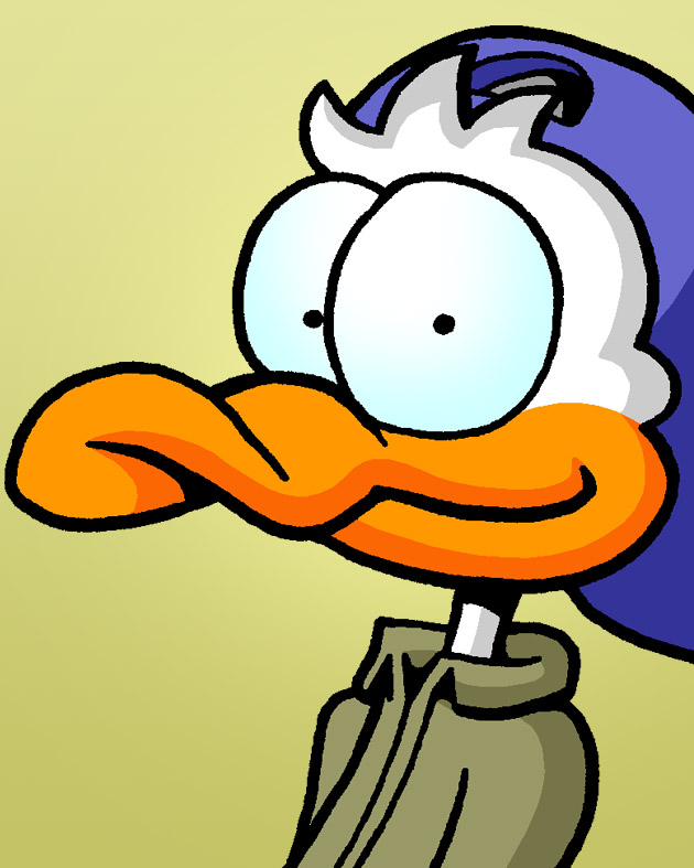 Michael and Stefan Strasser